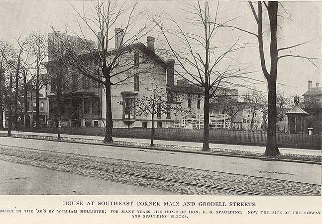 Built in 1830's by William Hollister; for many years the home of Hon. E. G. Spaulding. Now the site of the Sidway and Spaulding blocks.